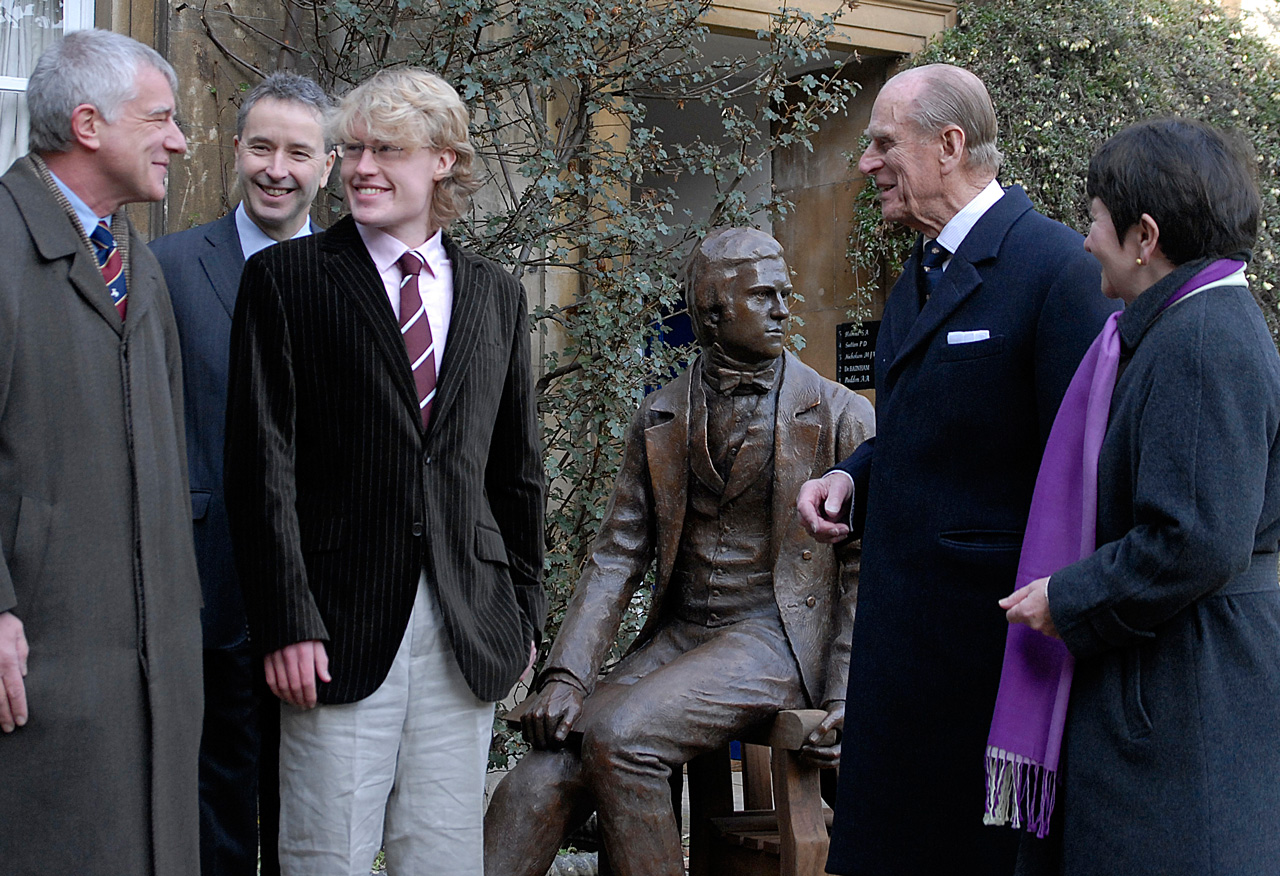 Unveiling Young Darwin statue by HRH Prince Philip in 2009 at Christ's College Cambridge. Featuring British sculptor Anthony Smith